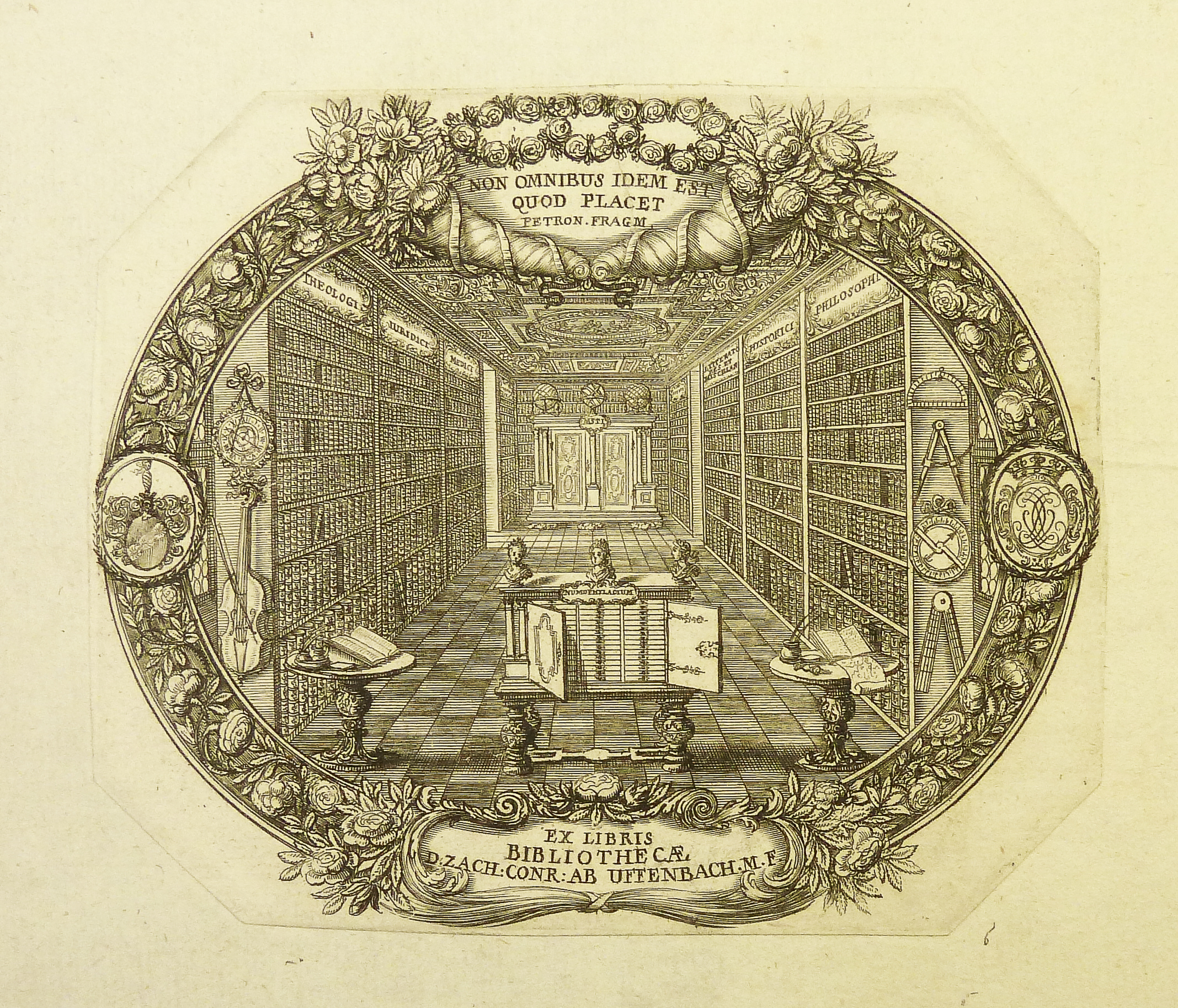 "Ex libris Bibliothecae D. Zach. Conr. ab Uffenbach. M. F." Bookplate of Zacharias Konrad von Uffenbach (1683-1734) Engraved by Johann Ulrich Krauss of Augsburg c.1705 Established heading: Uffenbach, Zacharias Konrad von, 1683-1734 Established heading: Krauss, Johann Ulrich, 1645-1719 Penn Libraries call number: FC6 G5426 628v All images from this book